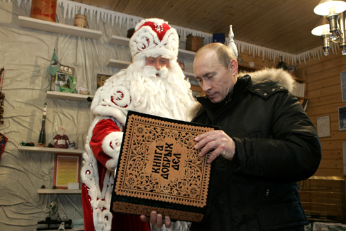 VOLOGODSKAIA REGION. At Ded Moroz's residence.